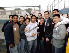 A picture I took of Pi Delta Psi Philanthropy with Governor Arnold Schwarzenegger